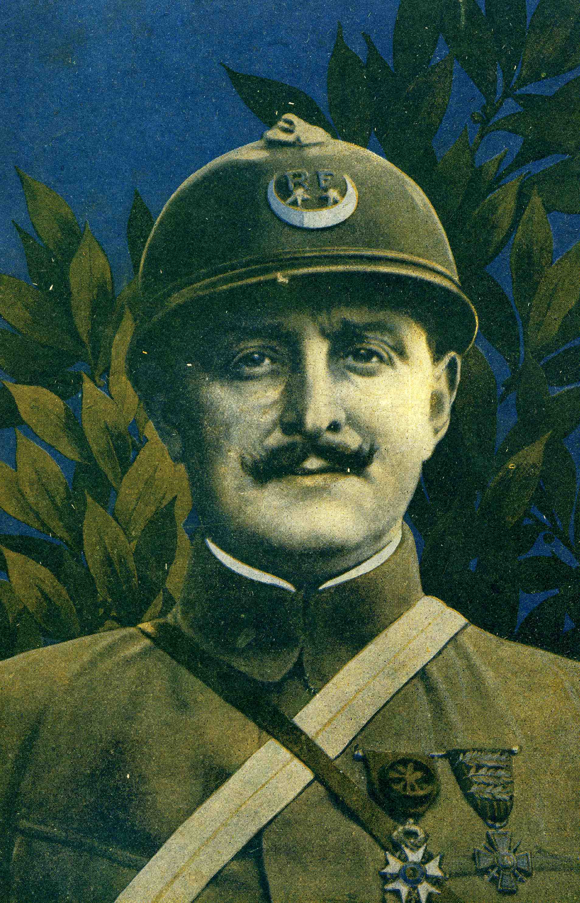 French general Jean Jules Henri Mordacq